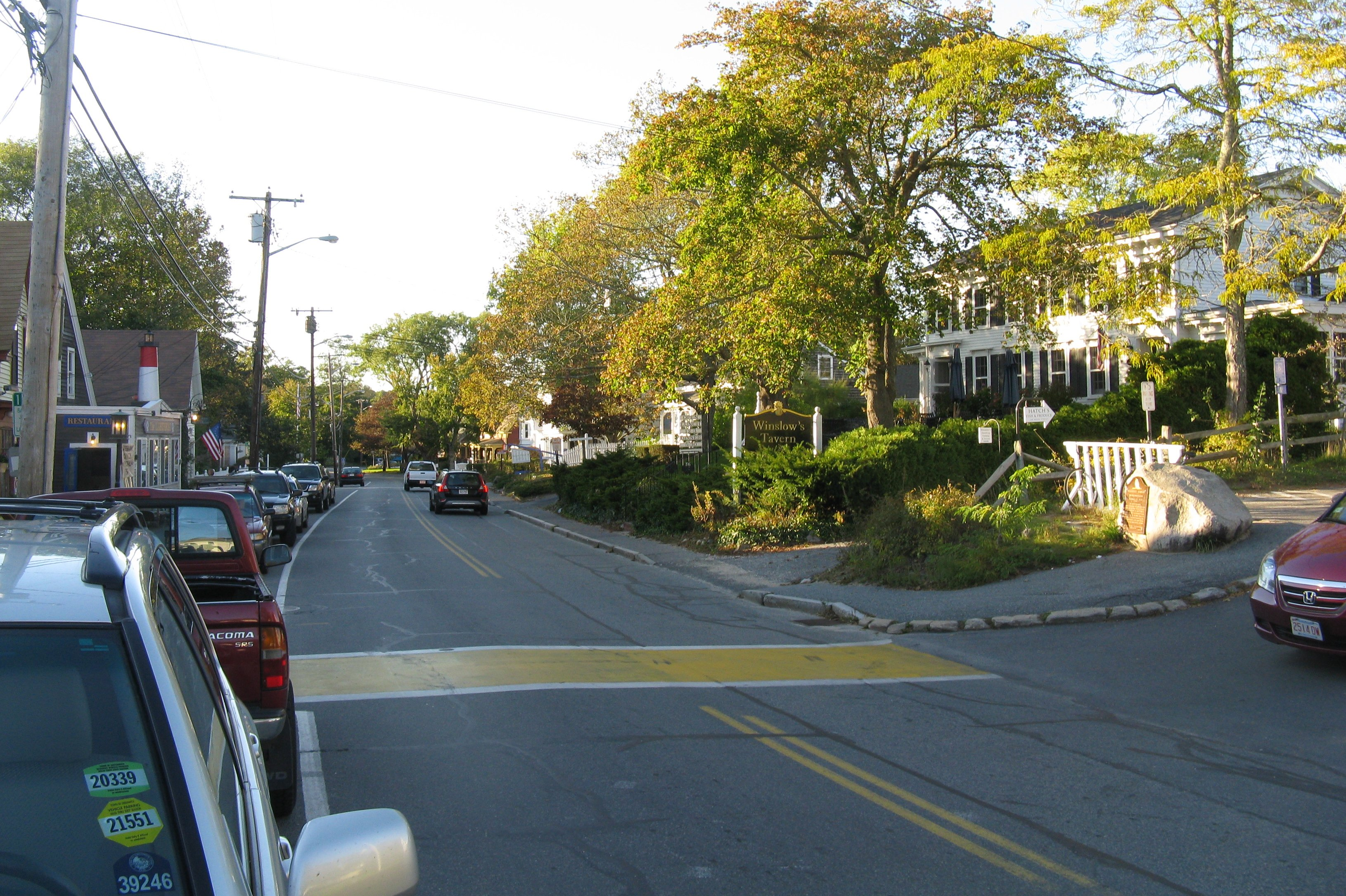 Main Street, Wellfleet Massachusetts